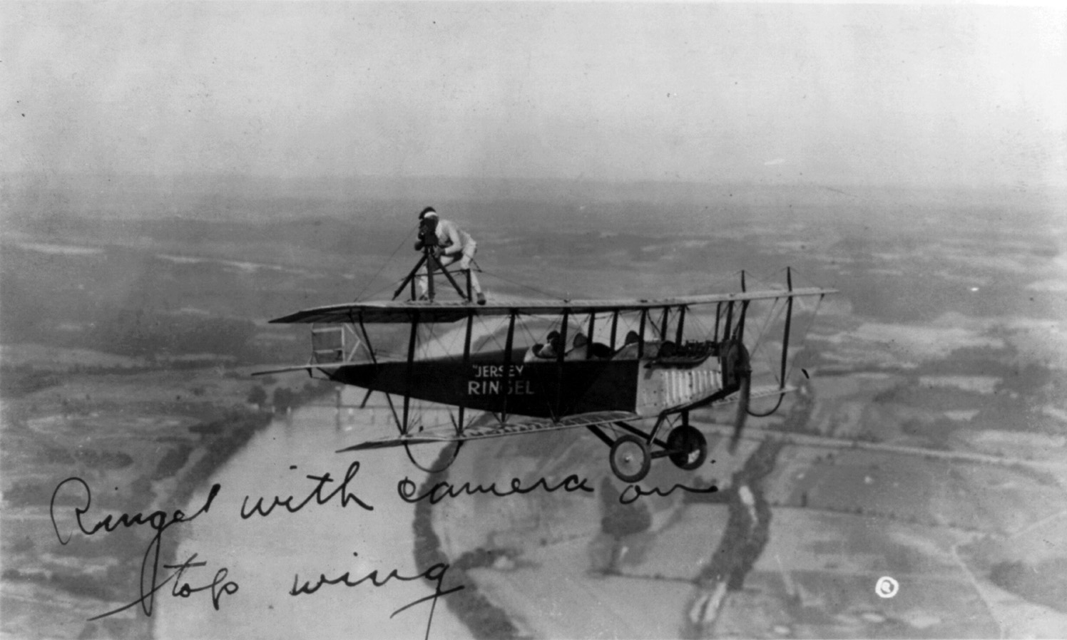 "Jersey" Ringel standing on top of wing of aeroplane [in flight] with camera